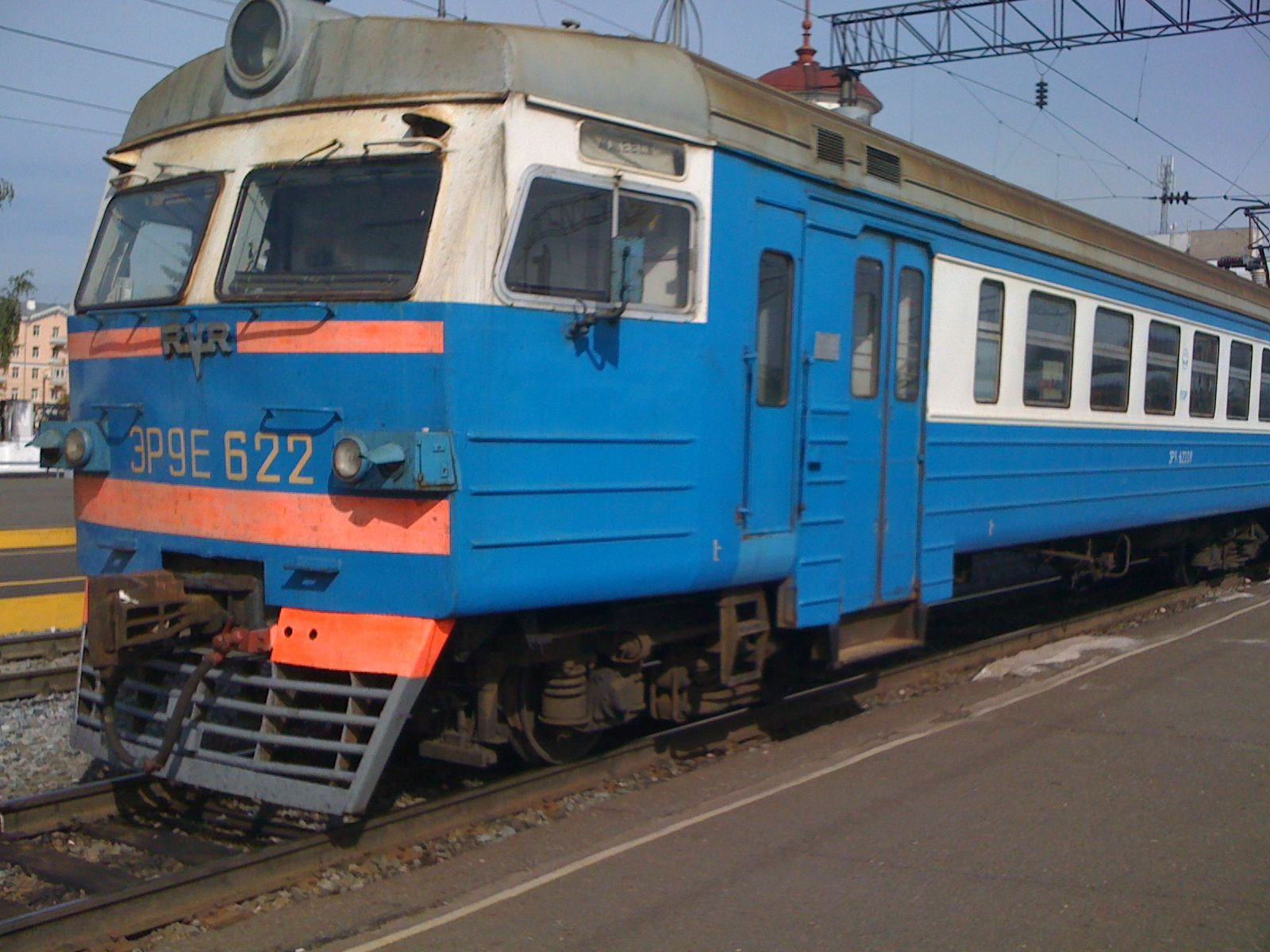 ER9E electric trainset, in Izhevsk.